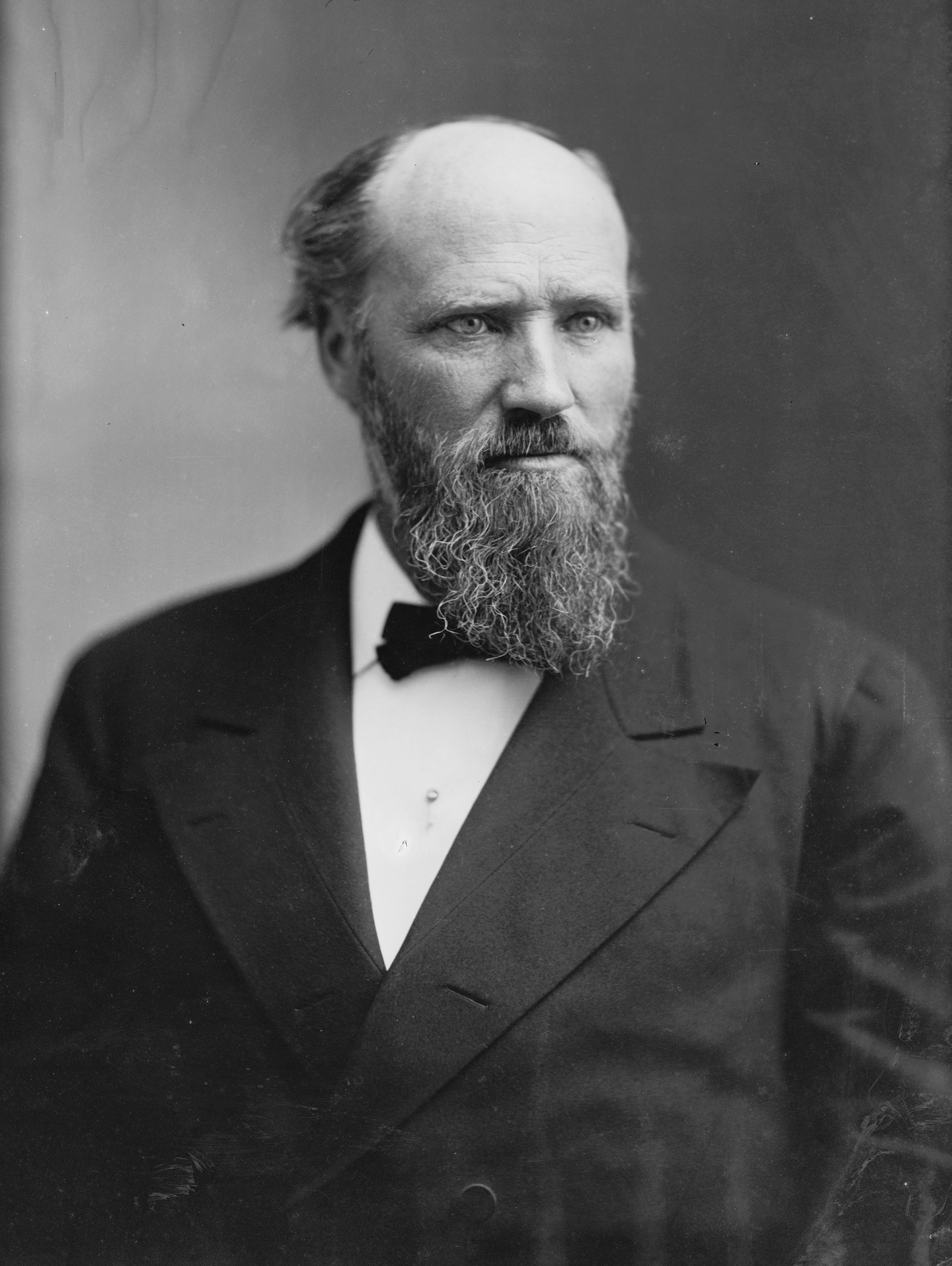 John S. Harris. Library of Congress description: "Harris, Hon. J.S. of La."